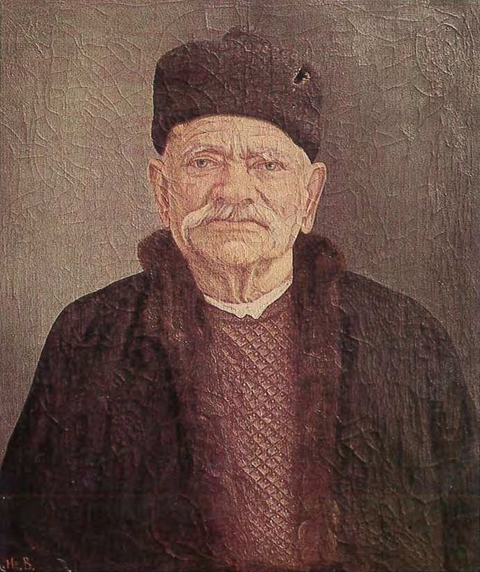 Portrait of Yovan Savev, a merchant from Shtip